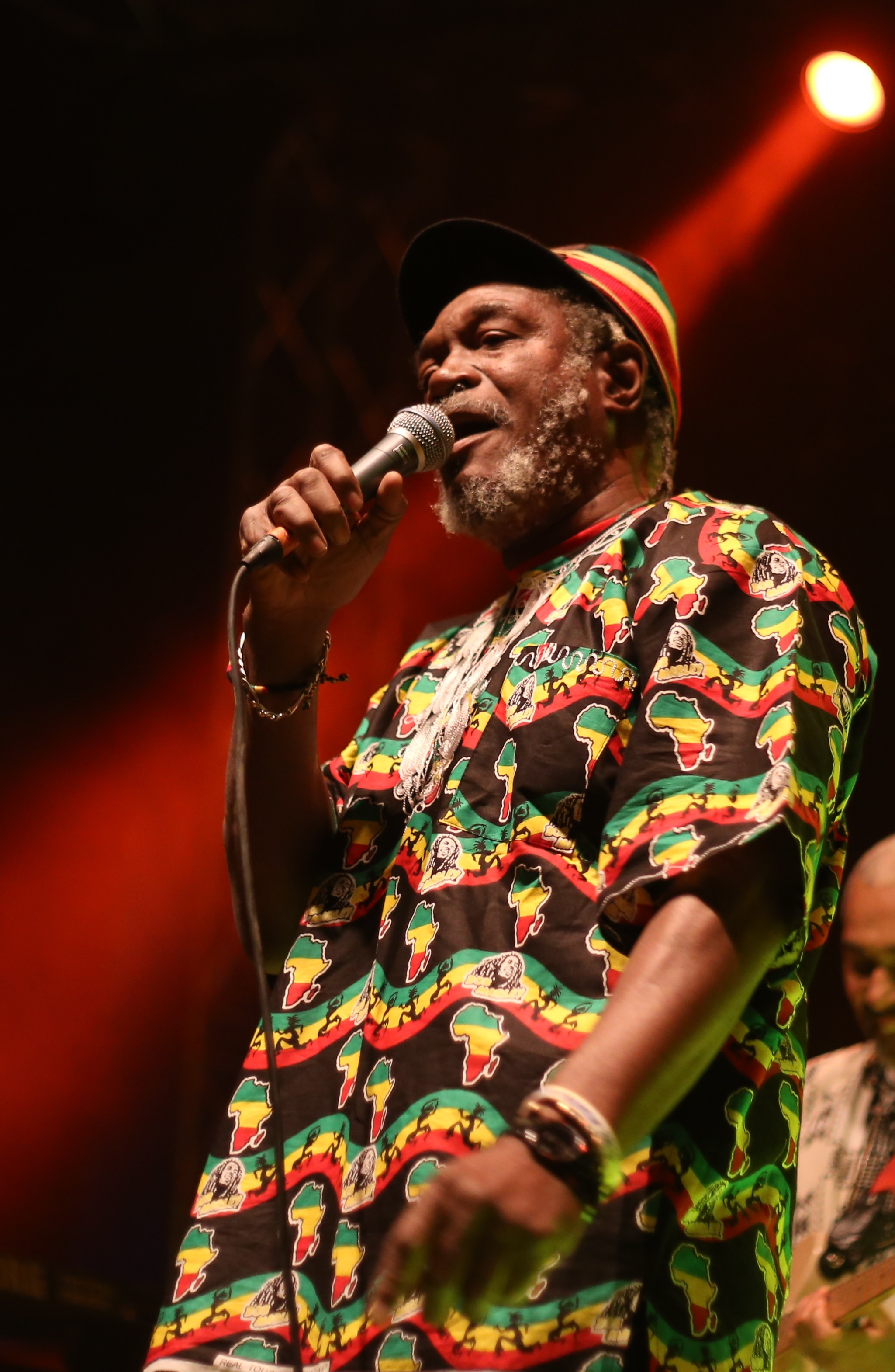 Horace Andy with band at Chiemsee Reggae Summer Festival 2013